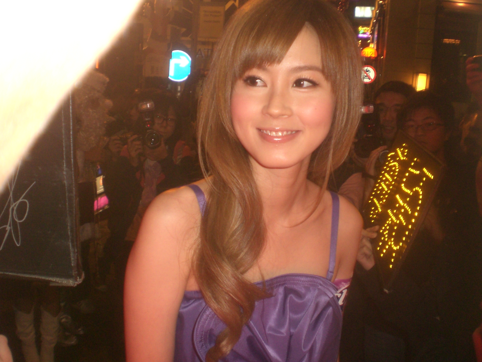 香港藝人在zh:中環蘭桂坊出席宣傳商品, 其歌迷協助造勢及保鏢工作